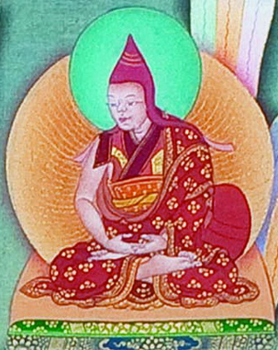 Buddhaguhya, 7th Century Indian Buddhist Scholar